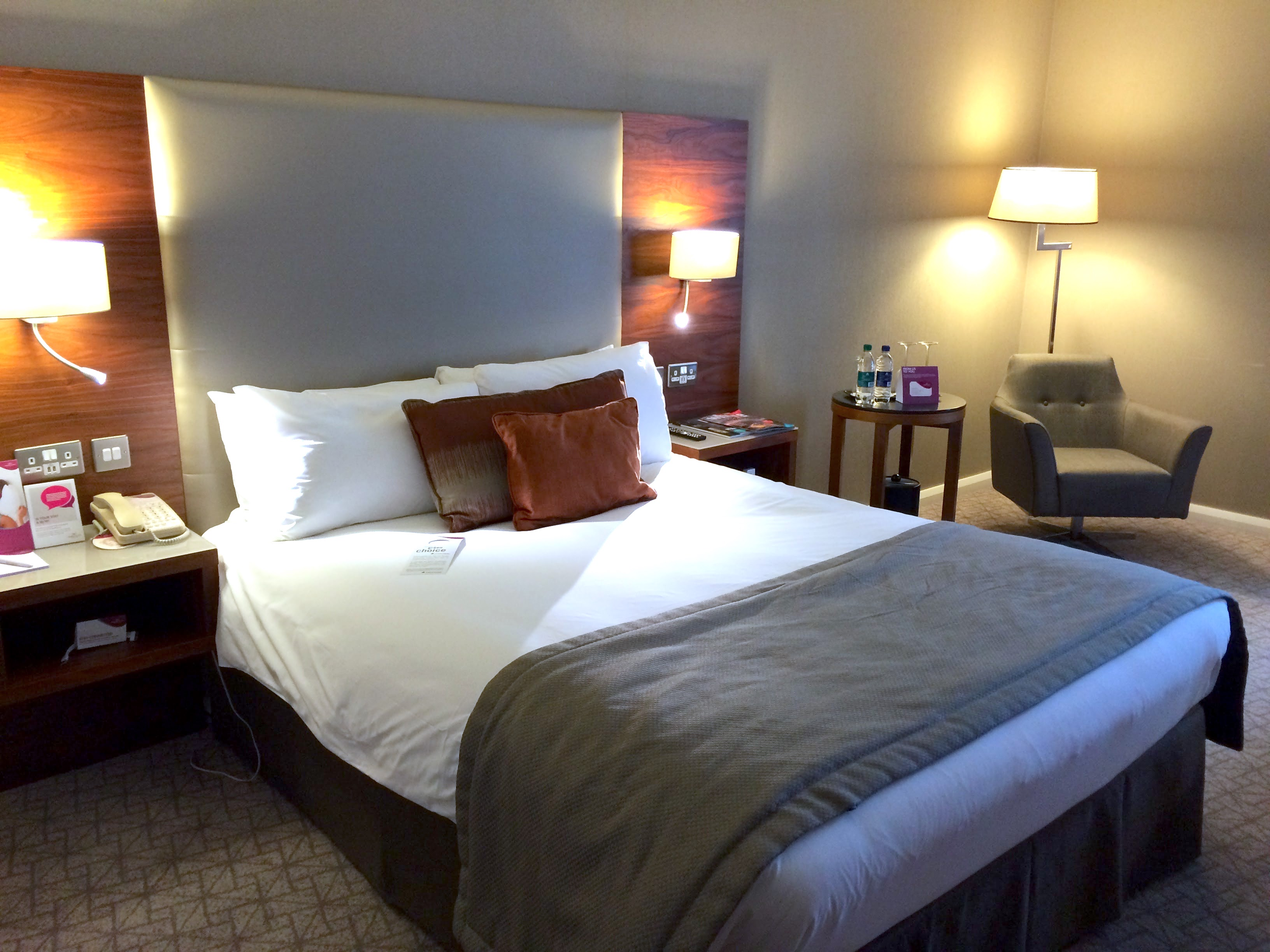 A room in Crowne Plaza Hotel by LCY Airport